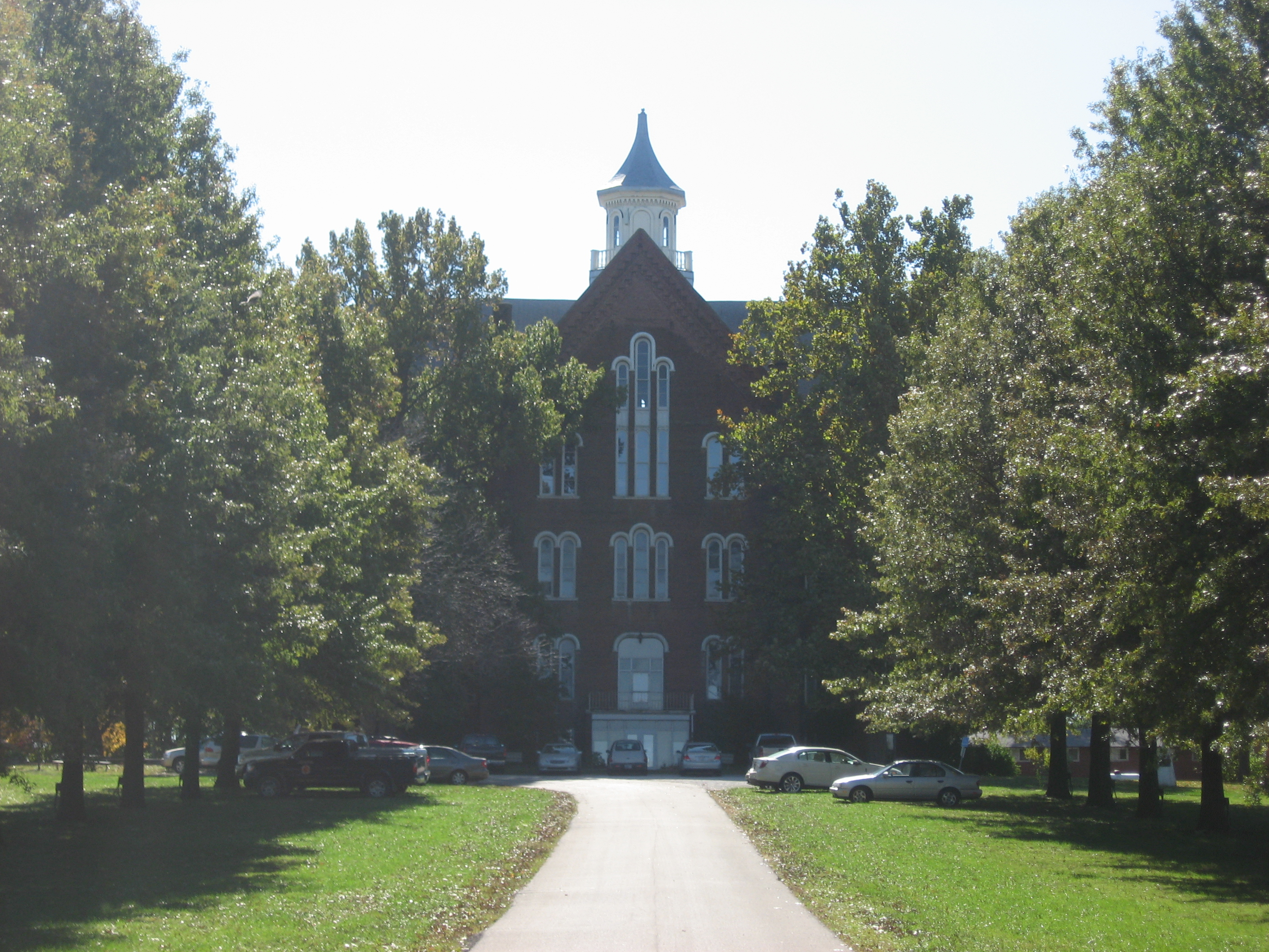 Front of the only surviving building at Union Christian College, located at 8555 Philip Street in Merom, Indiana, United States. Built in 1859 and now home to the Merom Conference Center, it is listed on the National Register of Historic Places.